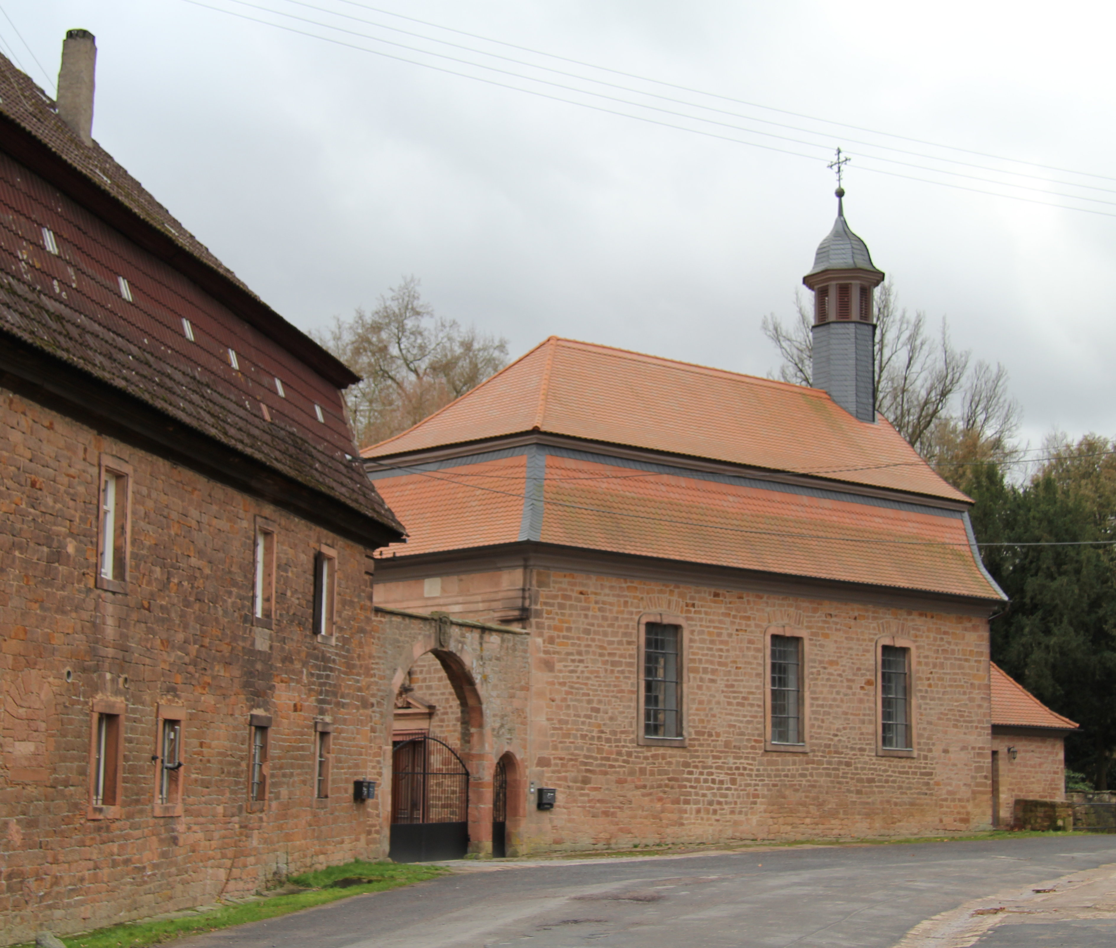 Chapel of Unterbessenbach Manor in Lower Franconia, Bavaria, Germany